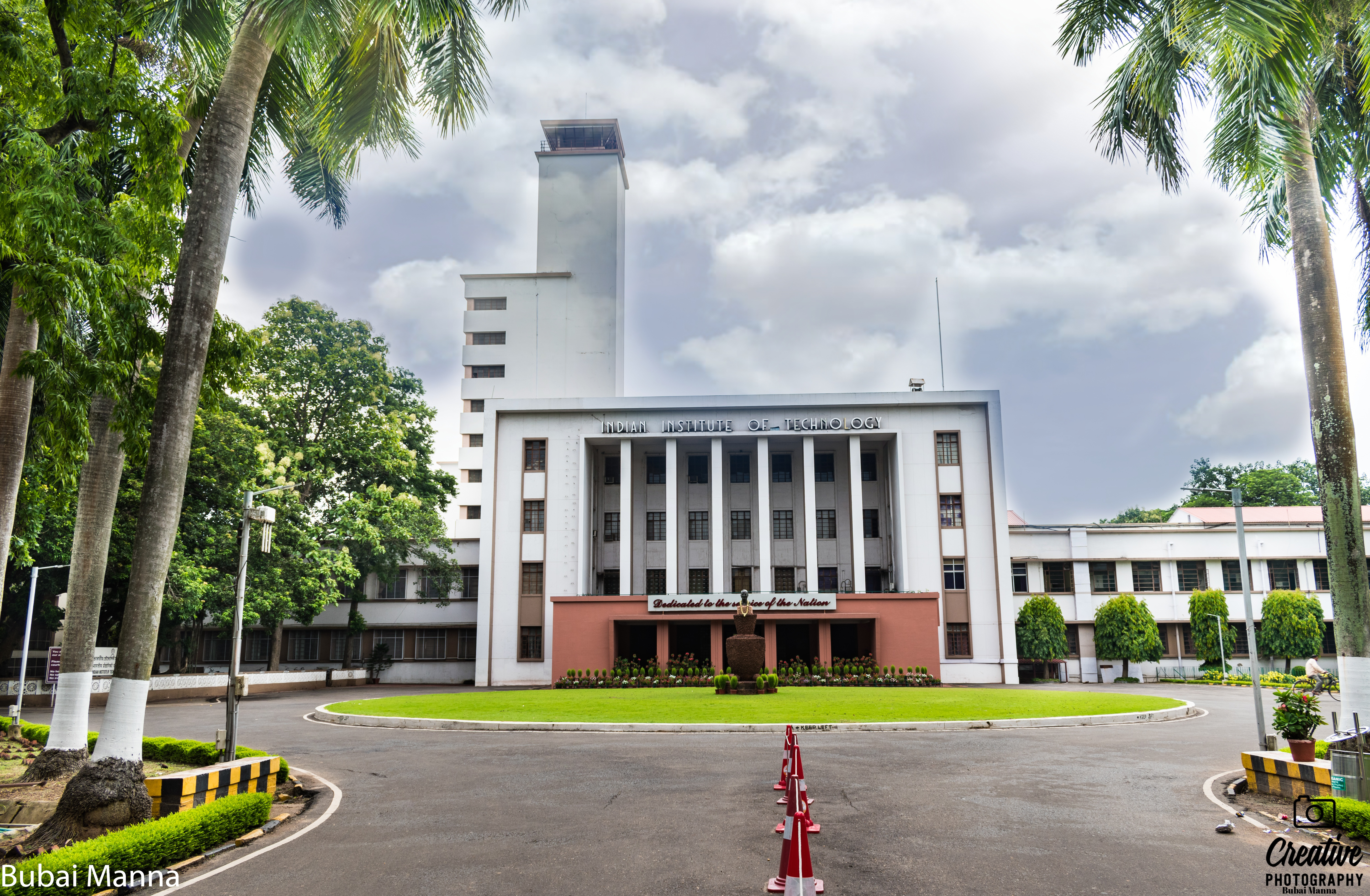 IIT Kharagpur main building during monsoon.